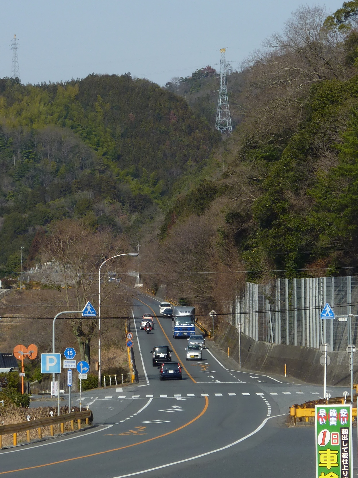 Yamaguchi Prefectural Road No.15 Iwakuni-Kuga Line (Hashirano, Iwakuni City, Yamaguchi Japan)